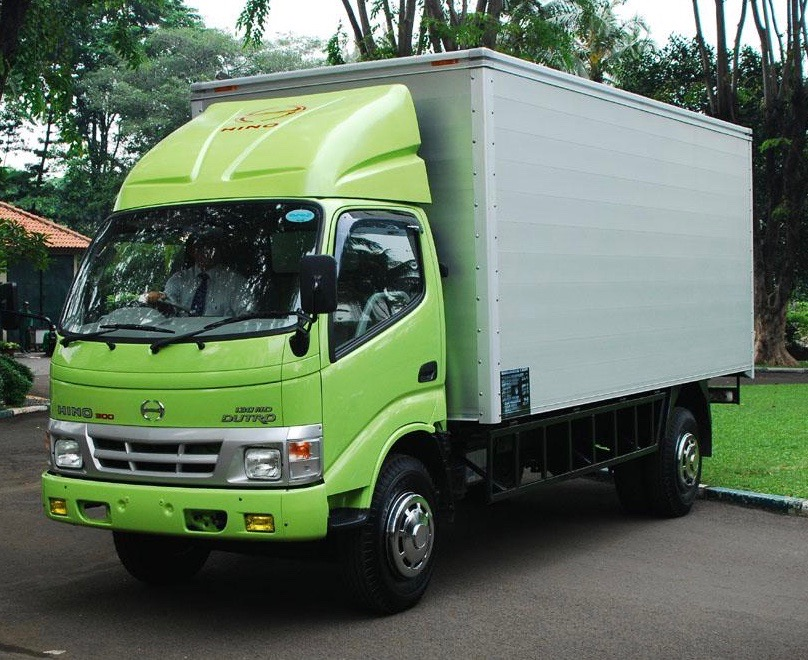 Dutro 130MD-L Xtreme 4x2 box truck